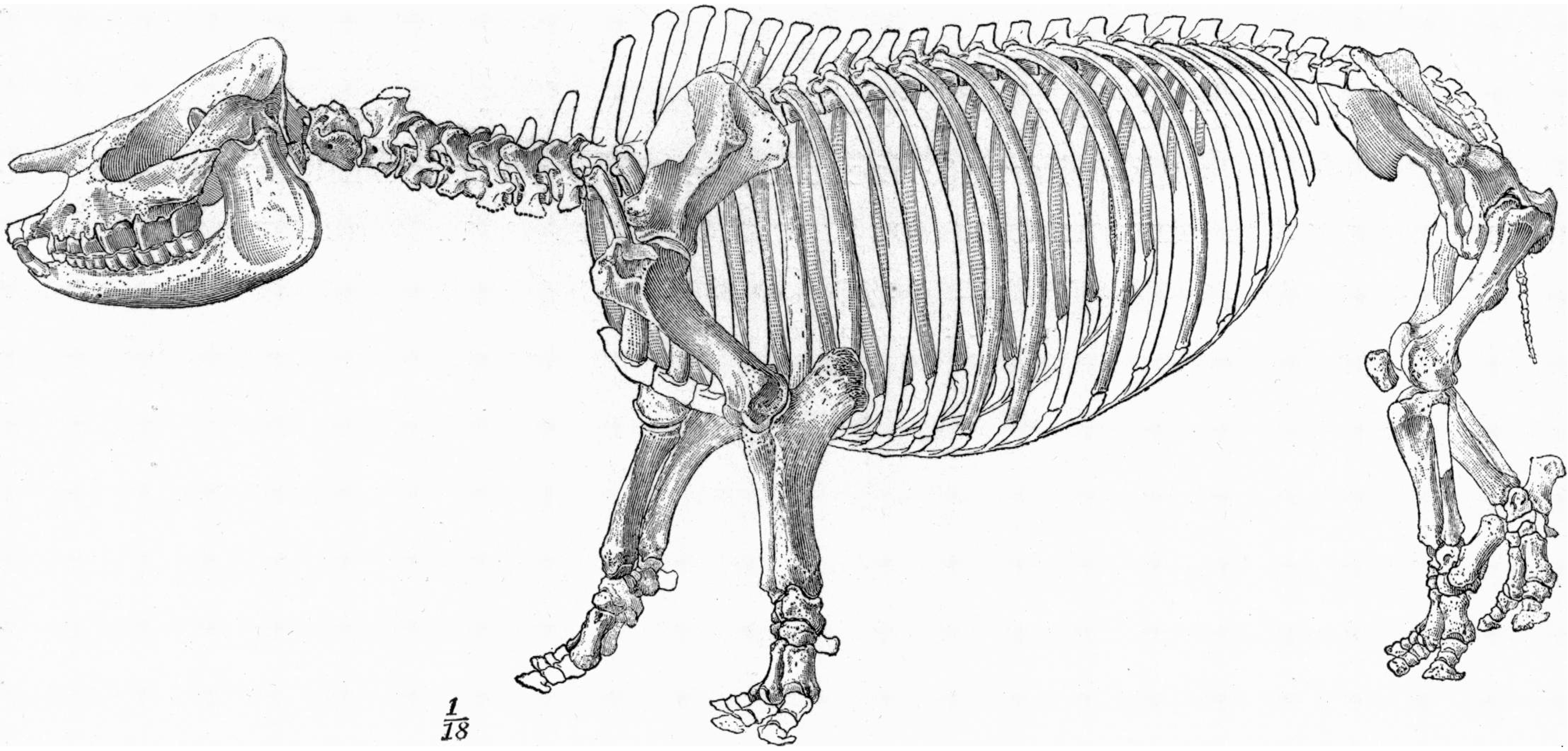 Teleoceras fossiger (formerly Aphelops) skeletal restoration.